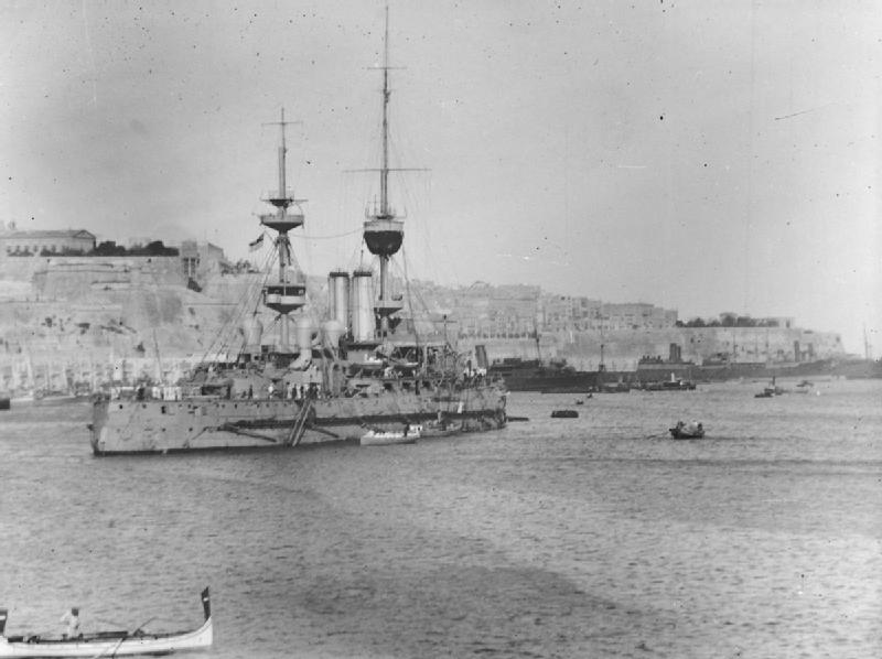 Photograph of British battleship HMS Jupiter in Grand Harbour, Valletta, Malta, en route from Archangel to Suez.